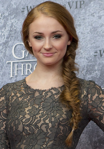 Sophie Turner at HBO's "Game Of Thrones" Season 3 Seattle Premiere at Cinerama 2013.